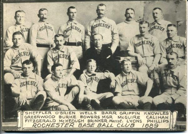 Team photograph of the 1889 Rochester Broncos